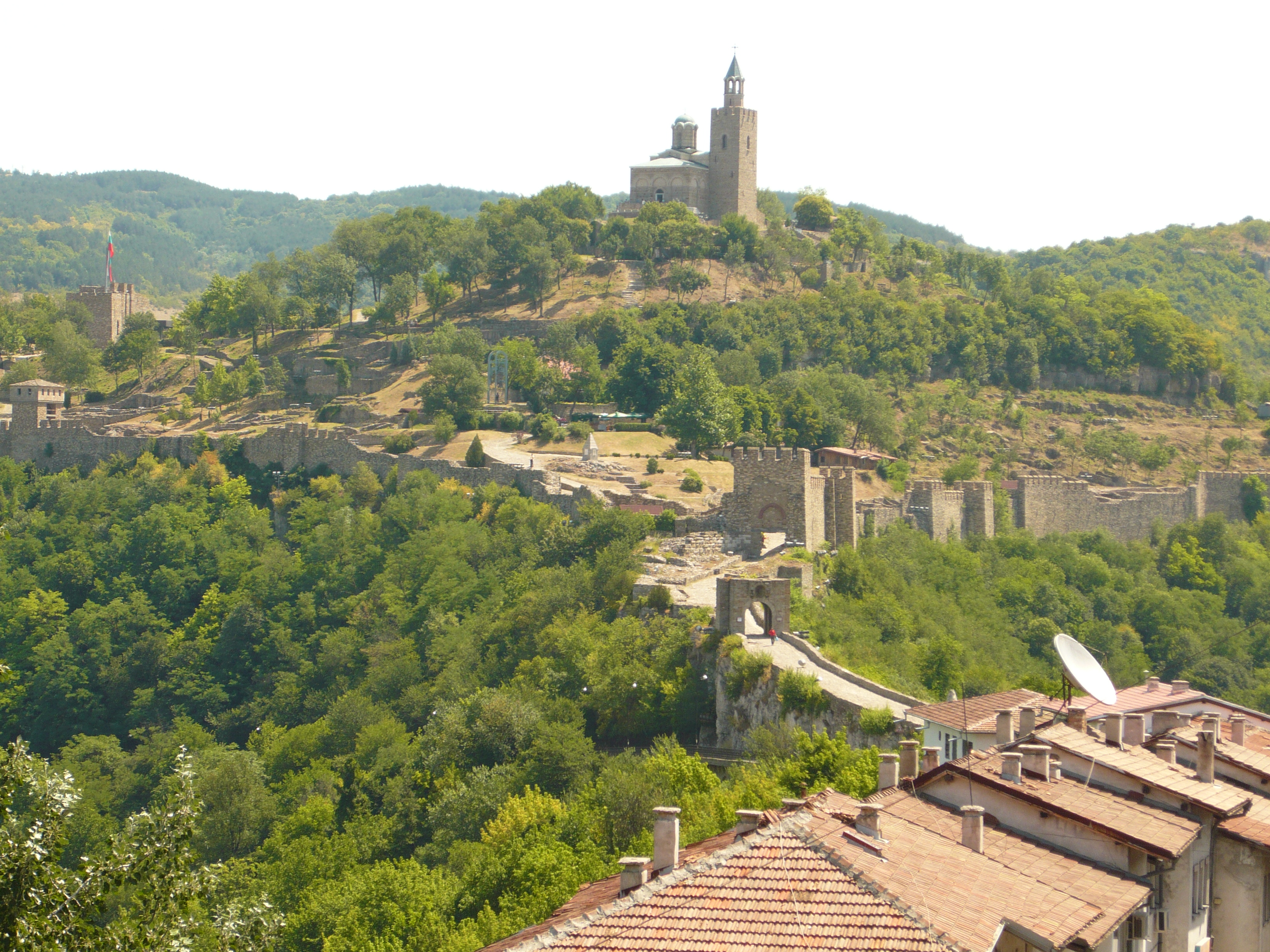 Tsarevets